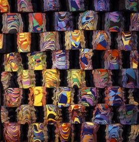 This is a scan of a slide of an artwork by Dutch visual artist Sibyl Heijnen. The title of the work is "The two sides of the same coin 1" and it was created in 1990. This image shows a detail of the artwork's colorful side. In 1992, it won the Excellence Prize in the Third International Textile Competition in Kyoto, Japan. The image was uploaded to Wikipedia with permission from the artist.